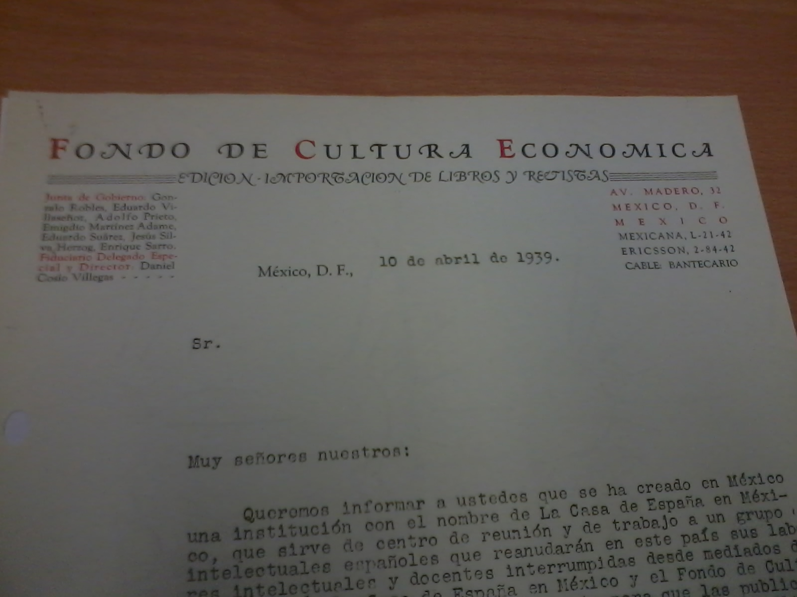 Document regarding Daniel Cosío Villegas (Spanish republican exile in Mexico) (retrieved from the historical archive of El Colegio de México, A.C.). Documentary research about the history of the creation of the institution and the Spanish exiles in Mexico during the Spanish civil war. Documentary collections consulted: Alfonso Reyes (box 6, files 7 and 10) and Daniel Cosío Villegas (box 4, file 12; box 16, file 13).